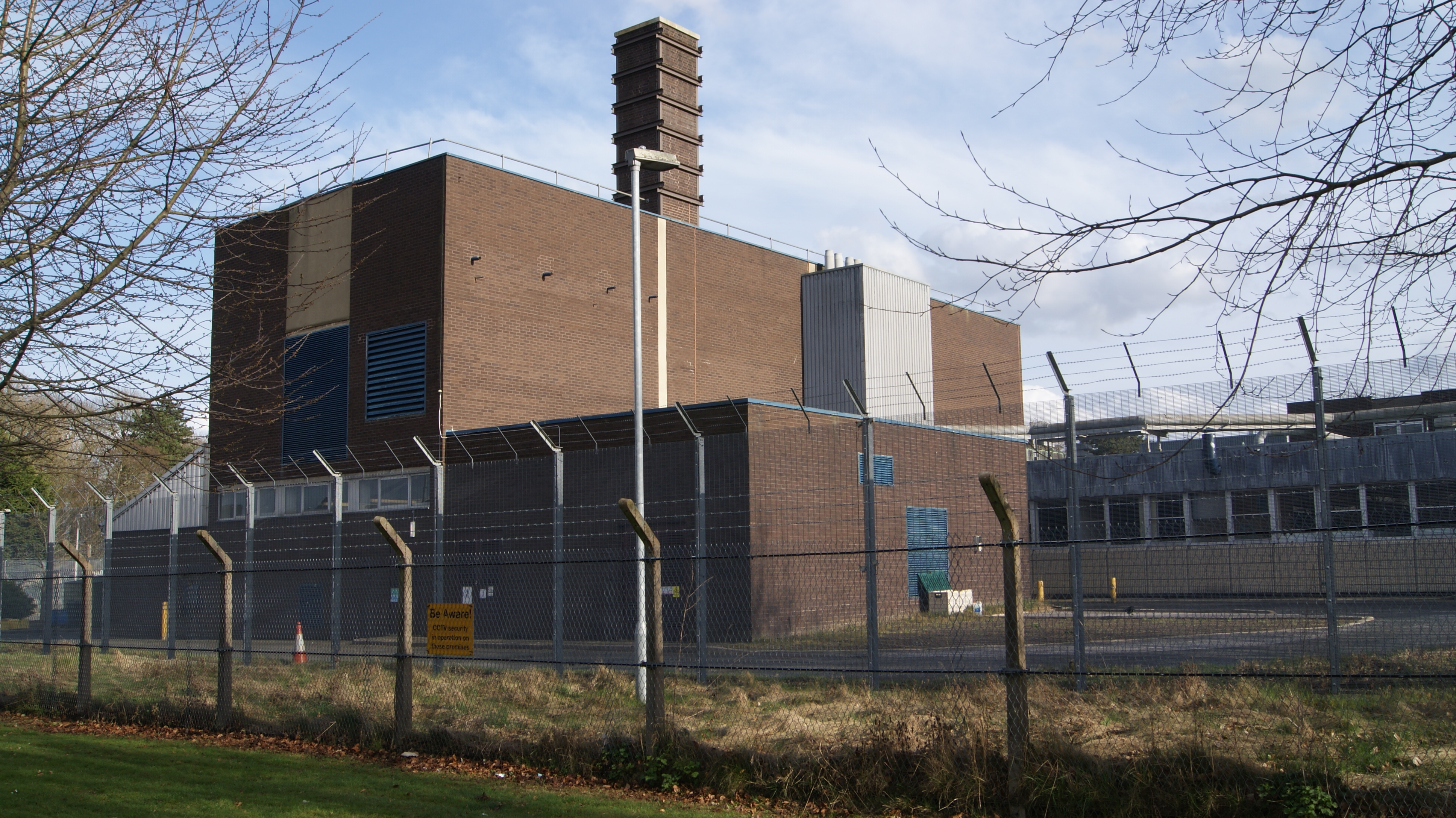 Forensic Science Service building, Sandbeck Way, Wetherby, West Yorkshire. Taken on the afternoon of Monday the 15th of April 2013.